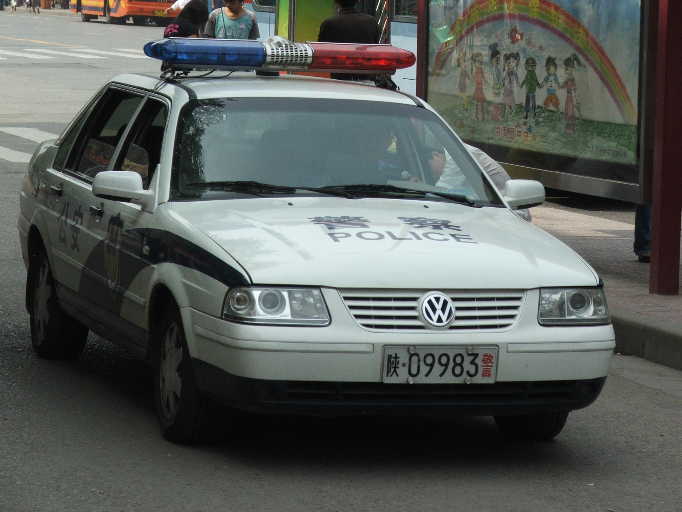 Chinese Volkswagen Police vehicle in the streets of Xian